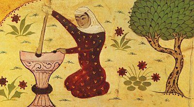 Rābiʻa al-ʻAdawiyya al-Qaysiyya (Arabic: رابعة العدوية القيسية) or simply Rabiʿa al-Basri (717–801 C.E.) was a female muslim Sufi saint.